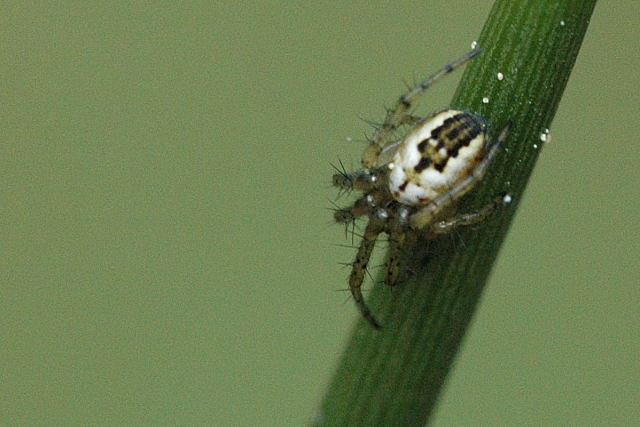 Mangora acalypha from Commanster, Belgian High Ardennes .